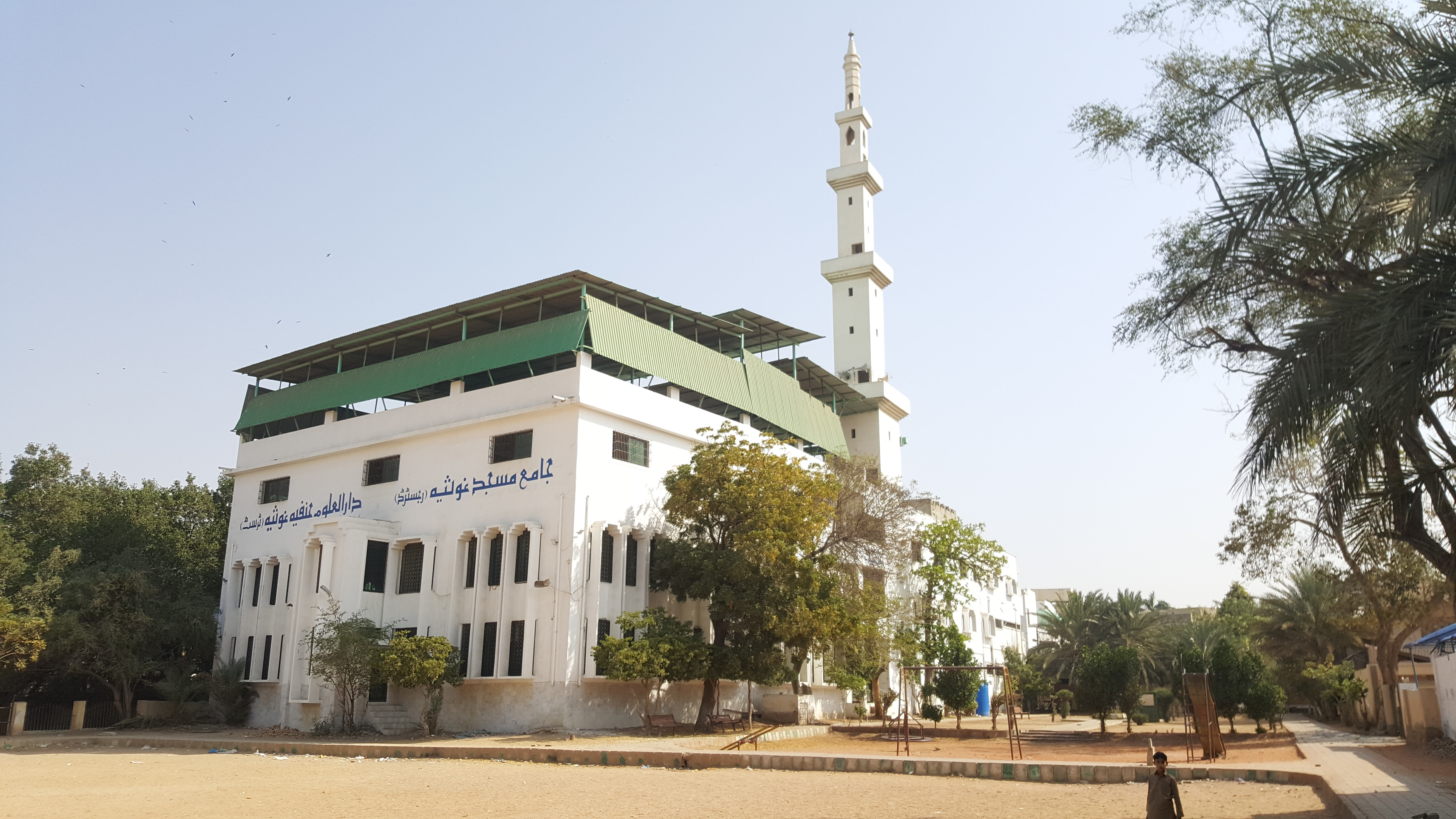 اہلسنت کی عظیم دینی درسگاہ